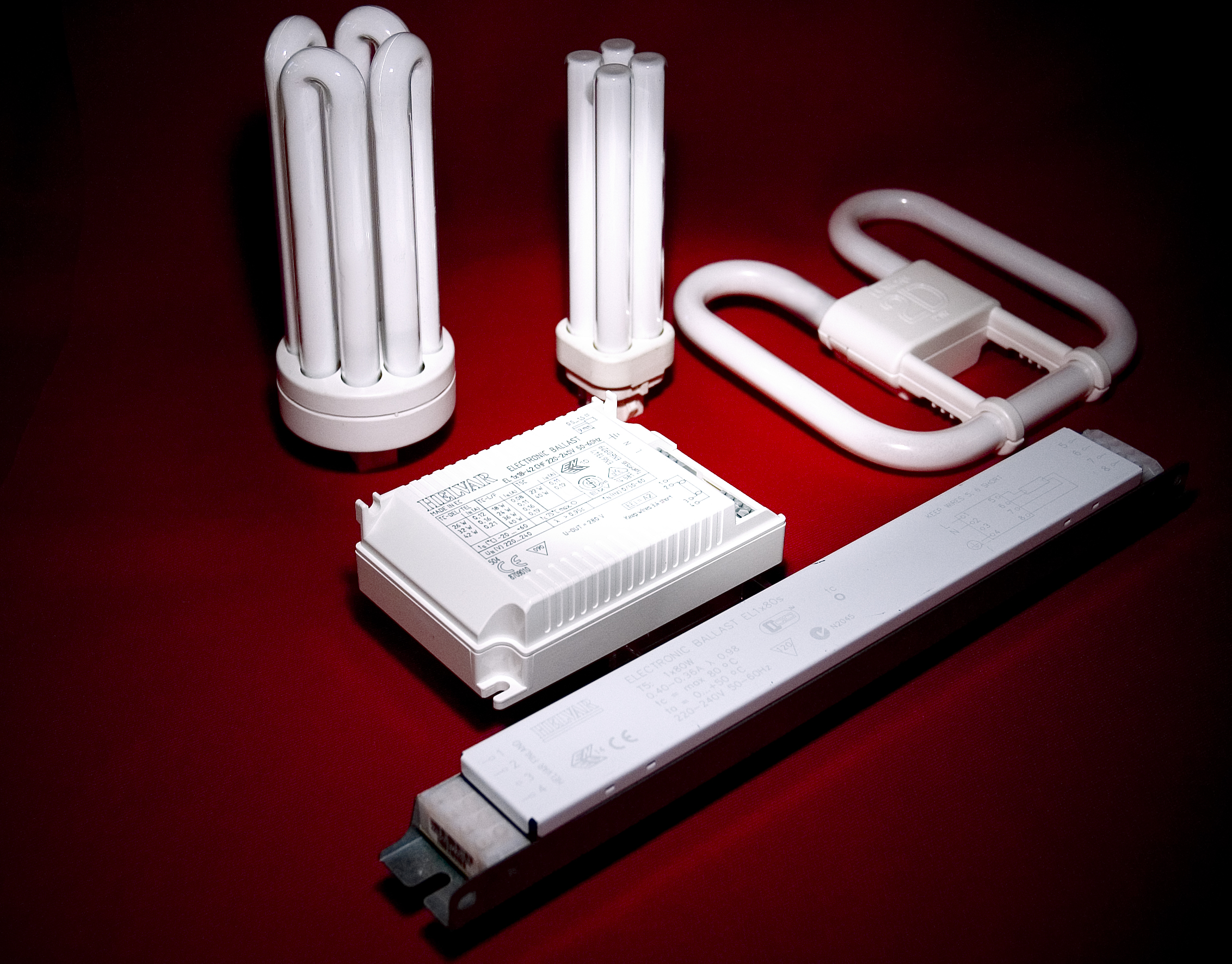 Luminescent compact lamps with electronic ballasts, which are used in offices, hotels, restaurants. Energysaving with good lighting level